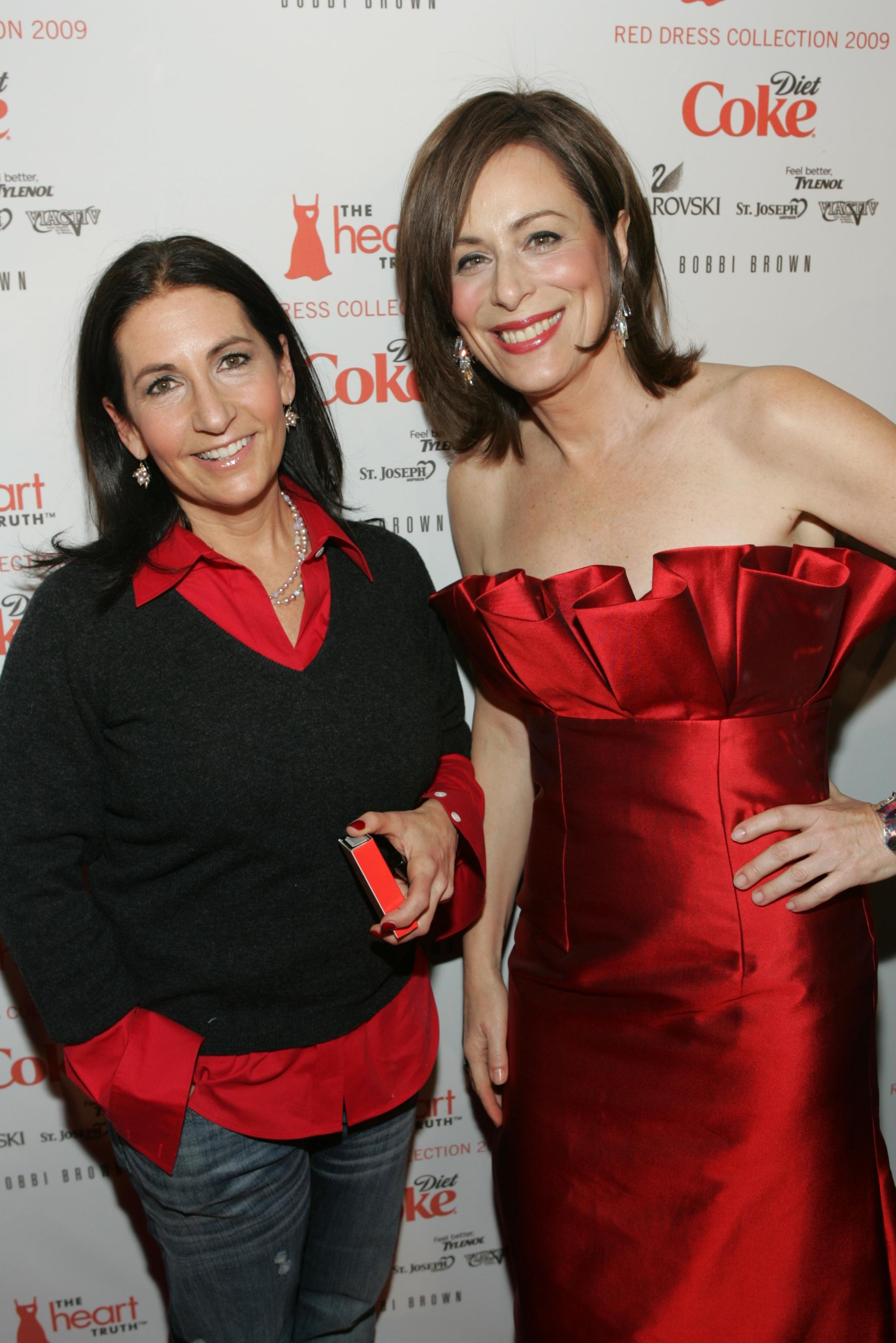 Backstage at The Heart Truth's Red Dress Collection Fashion Show during New York Fashion Week. February 13, 2009 at Bryant Park.